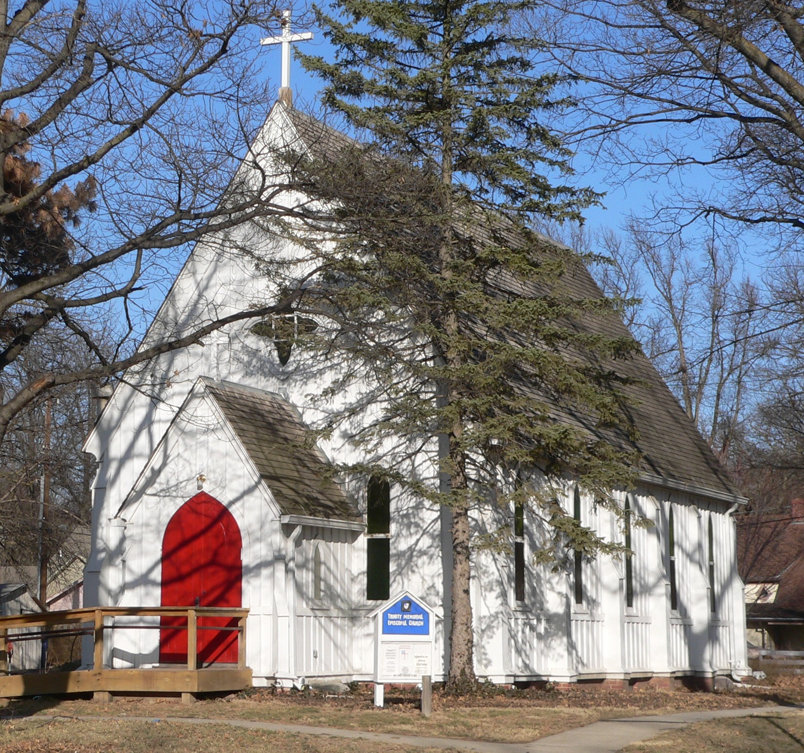 Trinity Memorial Episcopal Church, located at northeast corner of 14th Street and Juniper Avenue in Crete, Nebraska; seen from the southwest.